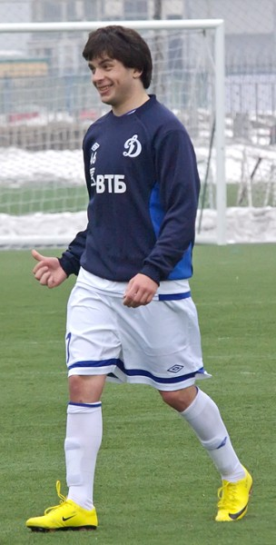 Irakliy Logua